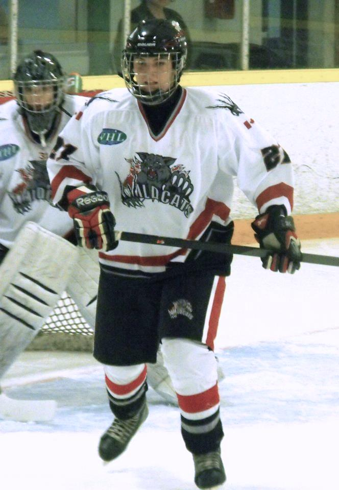 Taken by Devan Mighton during 2014-15 PWHL season.